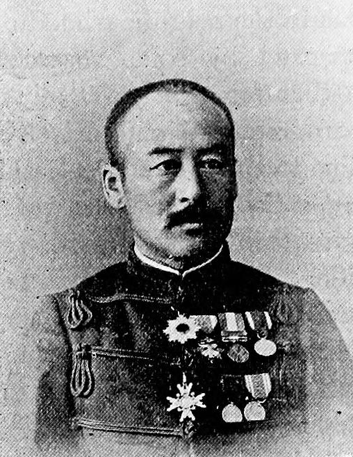 Lieutenant-Colonel Kimura Yuko; Commander of the 3rd Regiment